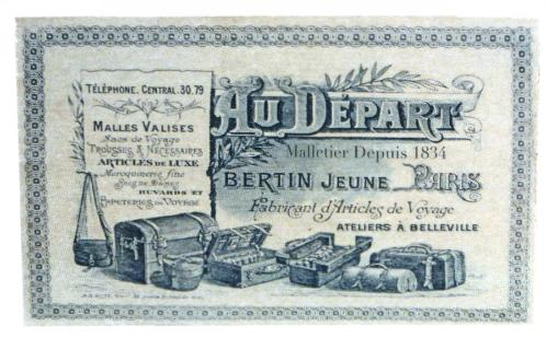 " Au depart" label inside of hat trunk 1910 Français cadien: étiquette de la Malle a chapeau "Au départ" 1910; Enseigne des Frères Bertin, utilisée pour leurs articles de voyage.